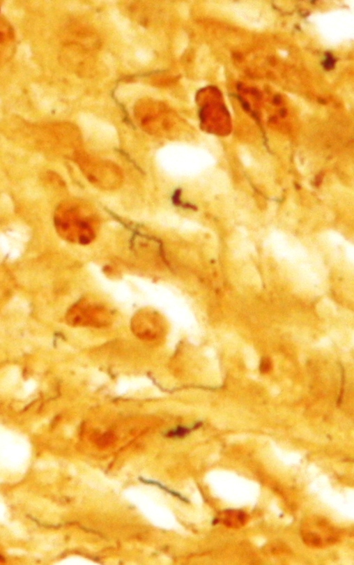 Micrograph showing Treponema pallidum the spirochete that causes syphilis. Dieterle stain. See also Image:Treponema pallidum - very high mag.jpg